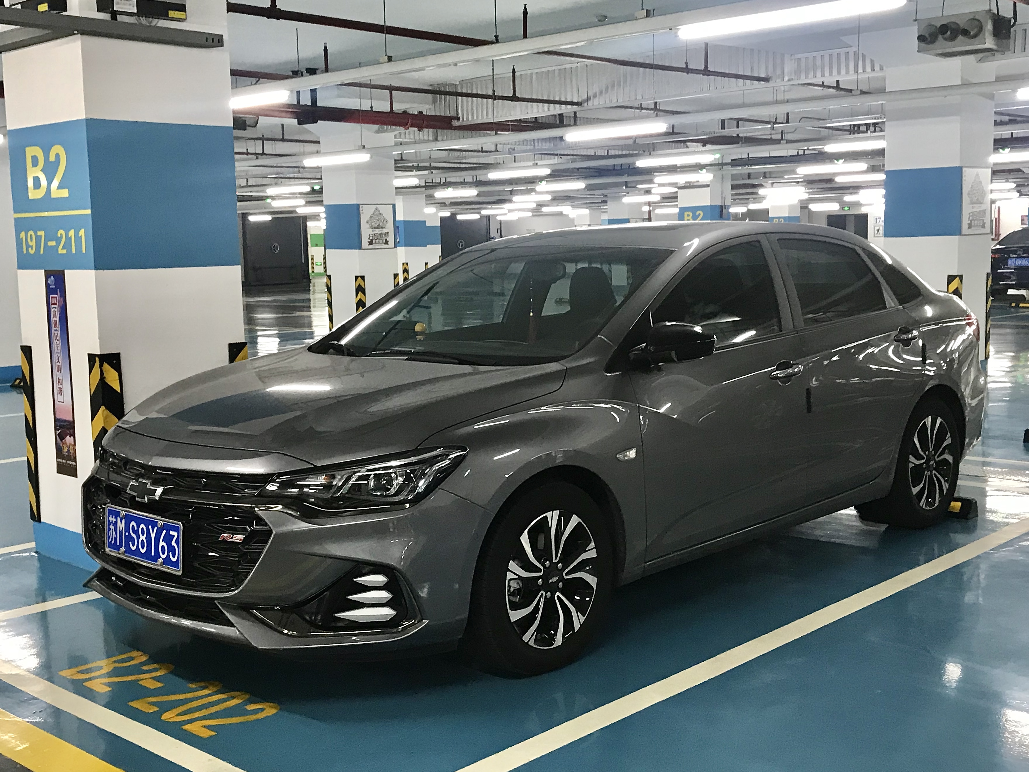 Chevrolet Monza RS front quarter view